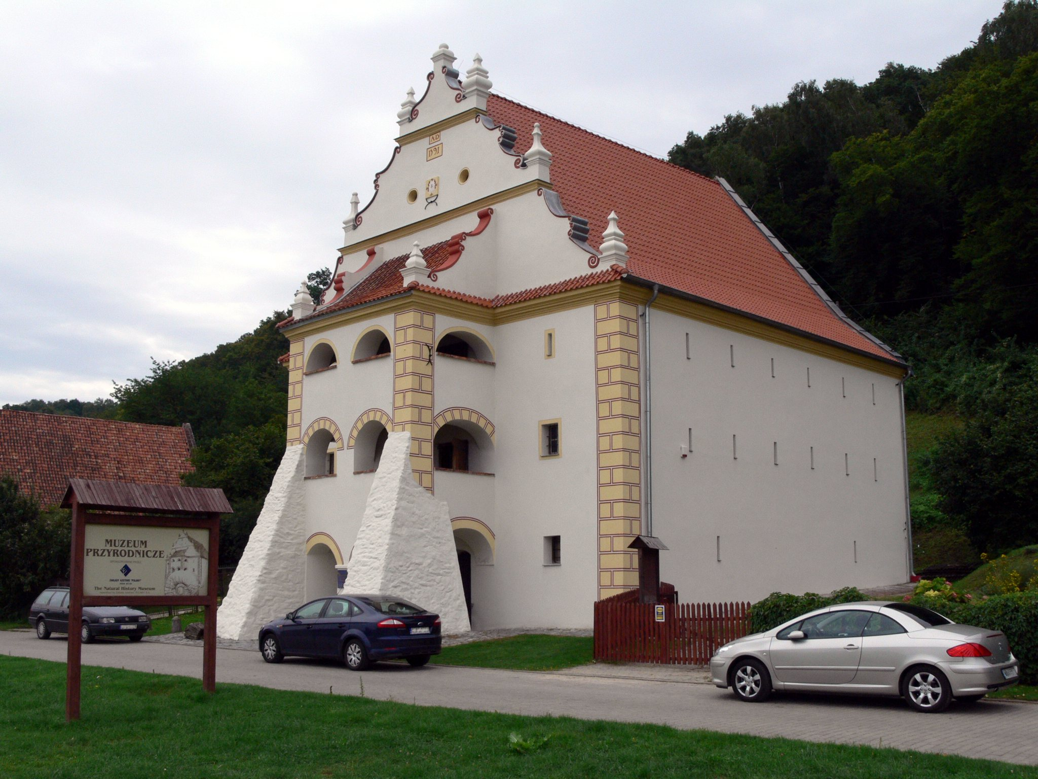 The Natural History Museum in Kazimierz Dolny, Poland